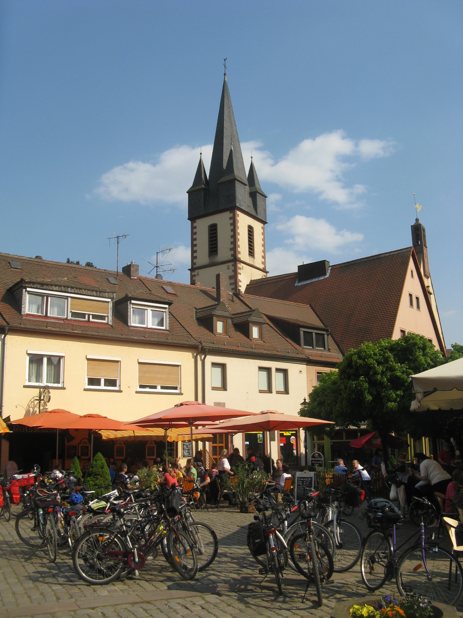 market place Gemünden am Main / Germany